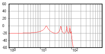 Output of Bode plotter application